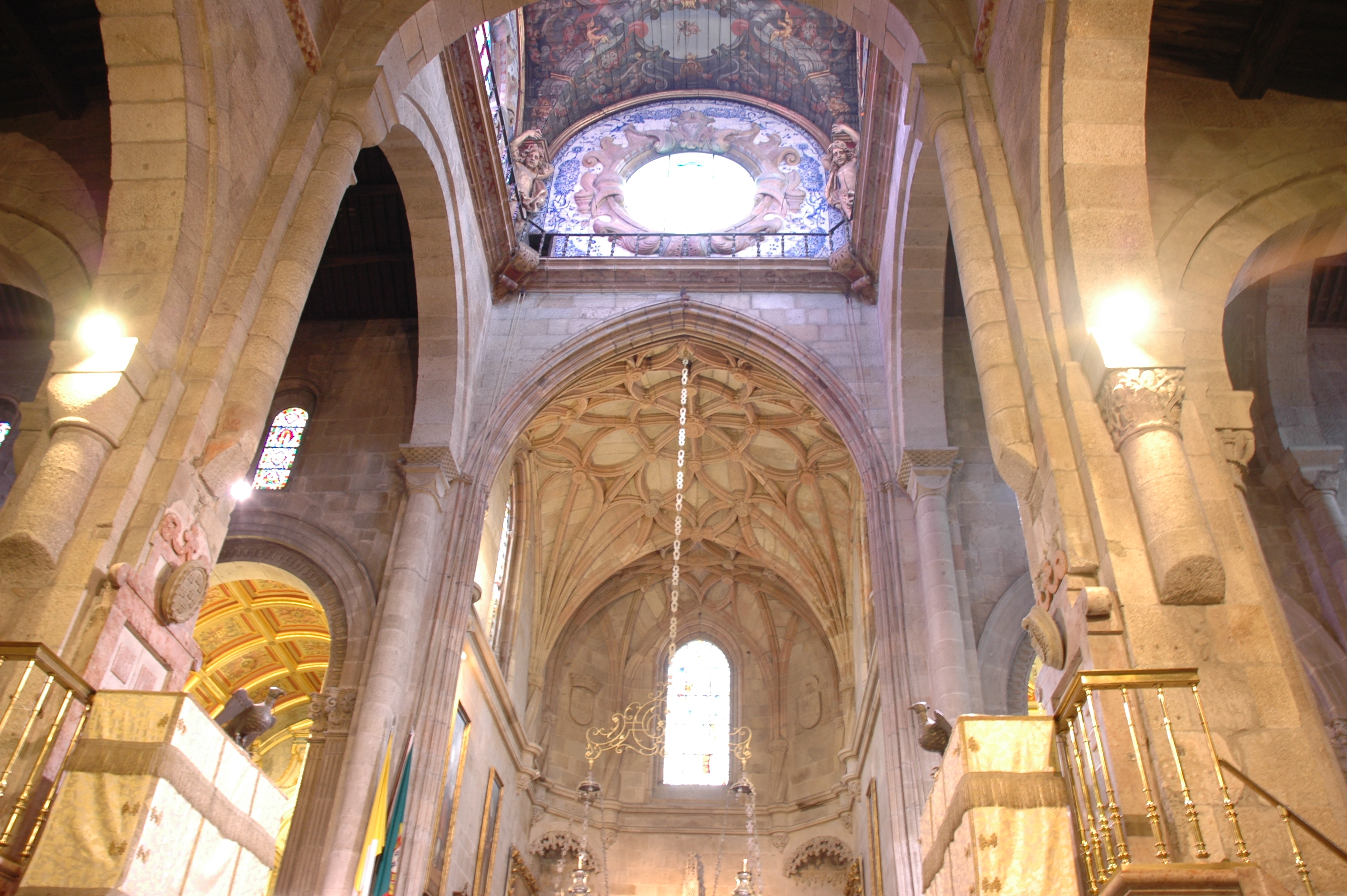 Catedral de Braga - Interior Cimbori